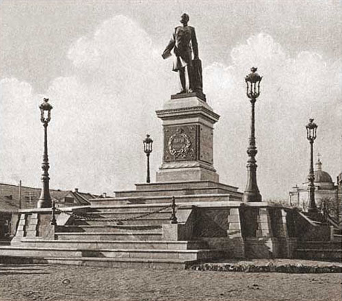 Monument to Emperor Alexander II in Yekaterinburg, Russia.